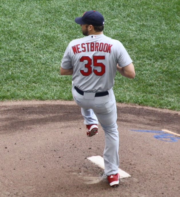 Jake Westbrook pitching in 2011 at Miller Park.